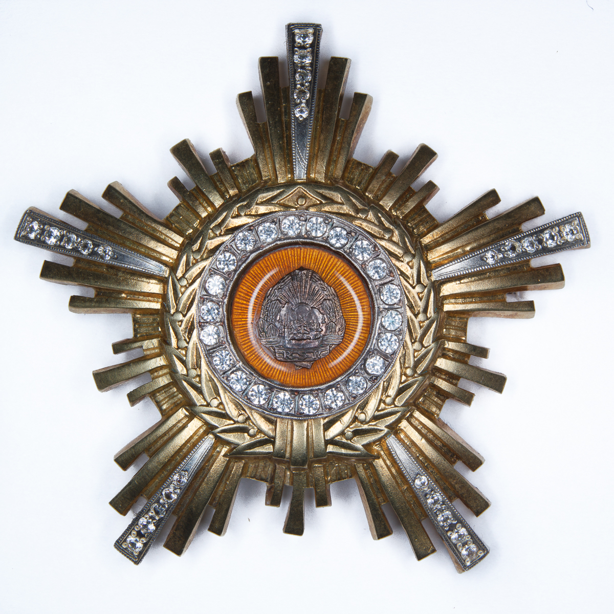 Order of the Star of Socialist Republic of Romania 1st class